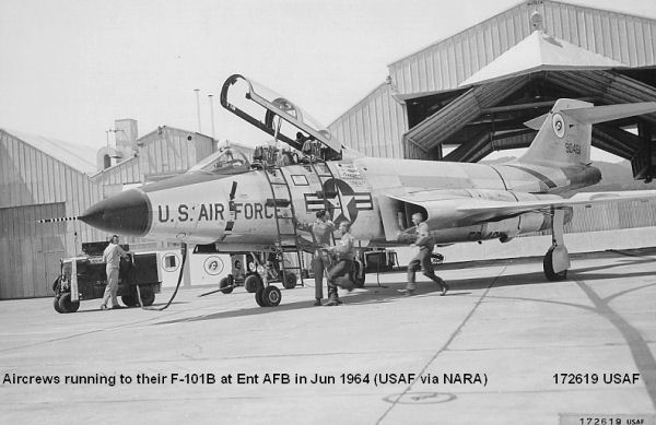 F-101B of the 84th FIS, Hamilton Air Force Base CA. Crew runs toward their 83rd FIS F-101B in front of the alert hangars at Hamilton AFB in 1961. The 83rd transitioned from the F-104A into the F-101B in mid-1960.